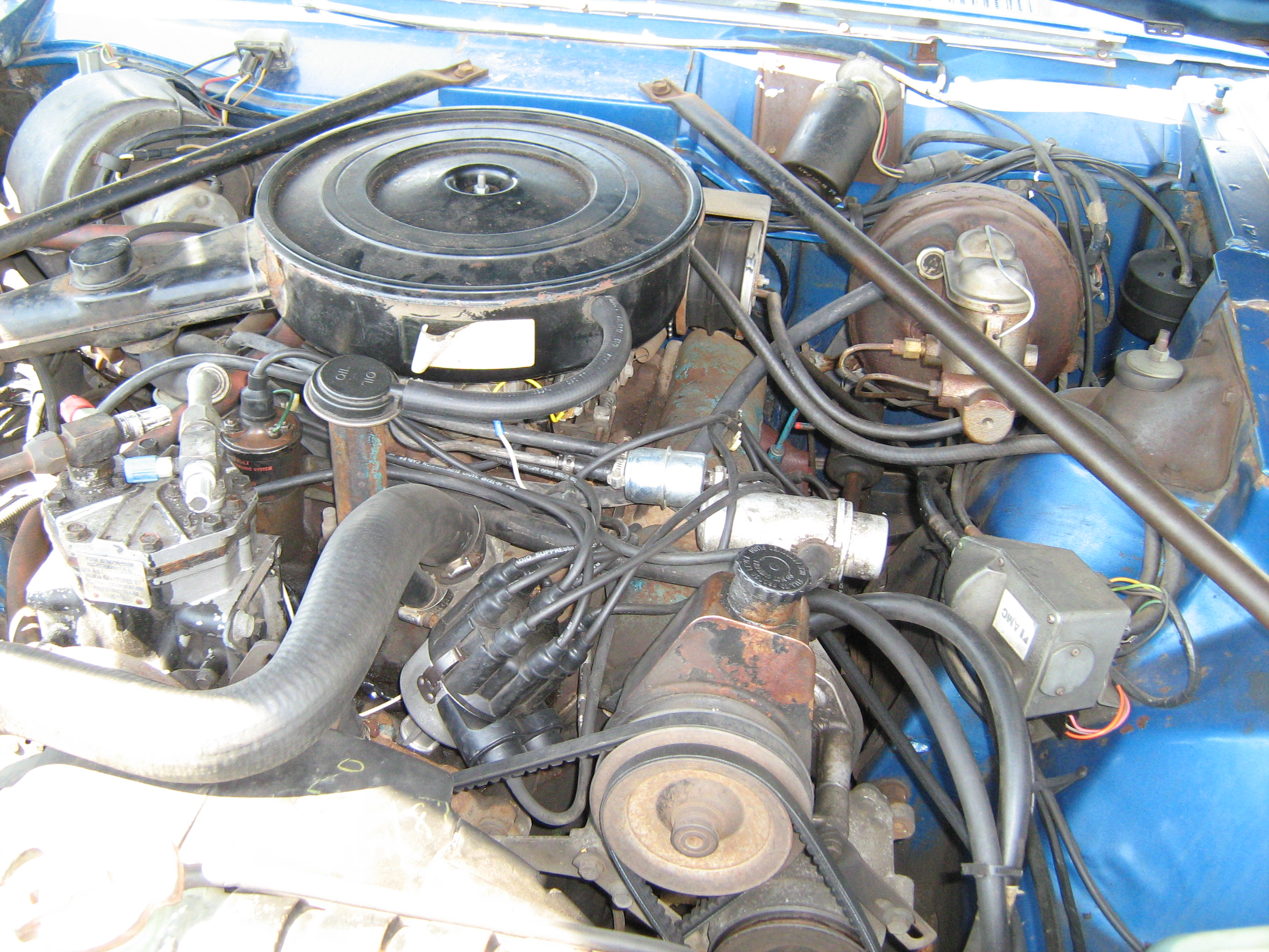 1975 AMC Matador four-door sedan - built by American Motors Corporation. This is a base model a with factory two-tone finish (blue with white top). View of the engine compartment with AMC's 360 CID (5.9 L) V8.